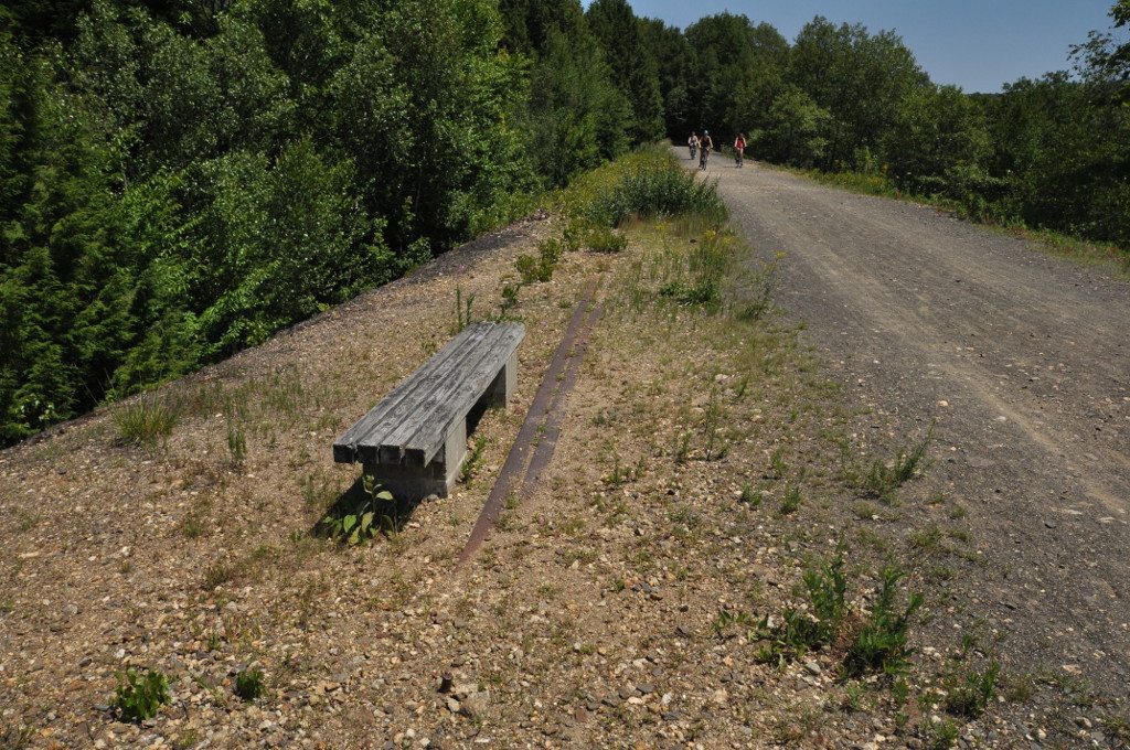 Lyman Viaduct, a buried wrought-iron railroad trestle. View is from the top, now part of the Air Line Trail in Colchester, Connecticut.